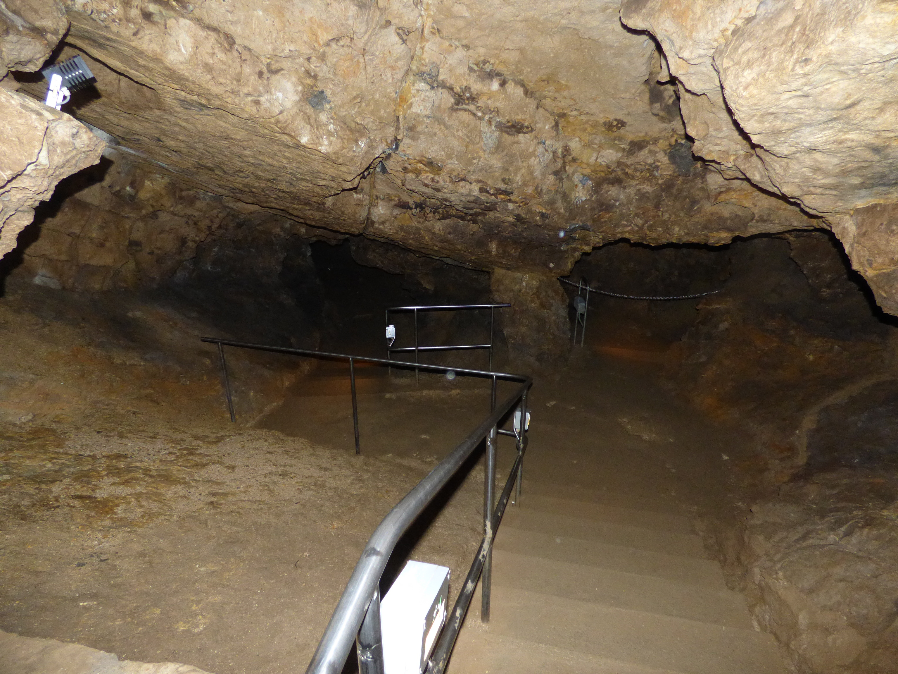 Lóczy-barlang 2016 12